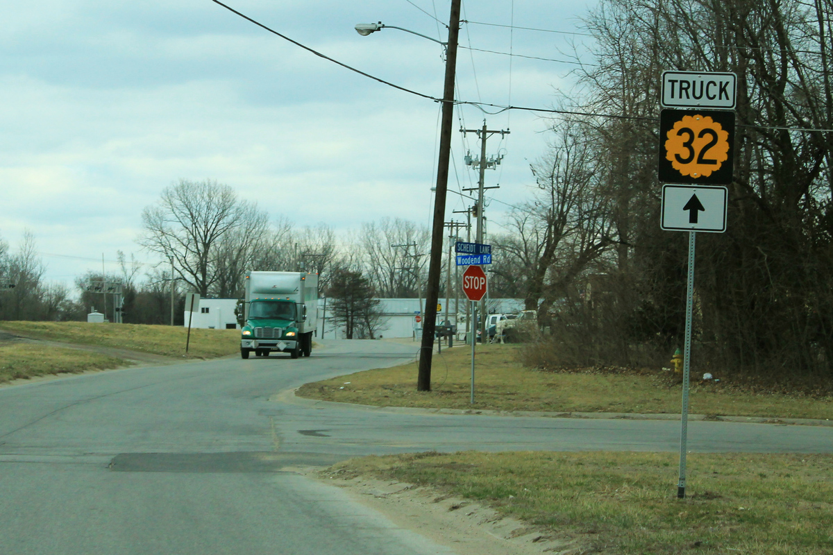 K-32 Truck eastbound at Woodend Road in Bonner Springs